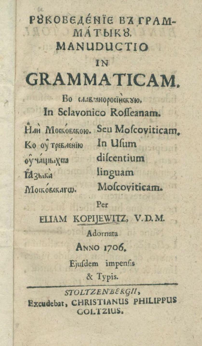 Ilja Kopievich's book "Introduction in Slavik-Russian Grammar"